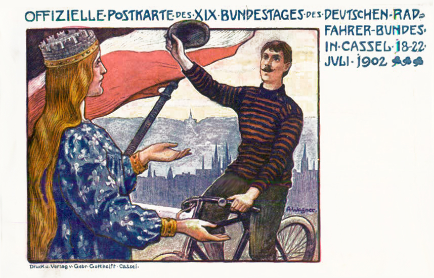 postcard of a bicyle meeting in 1902